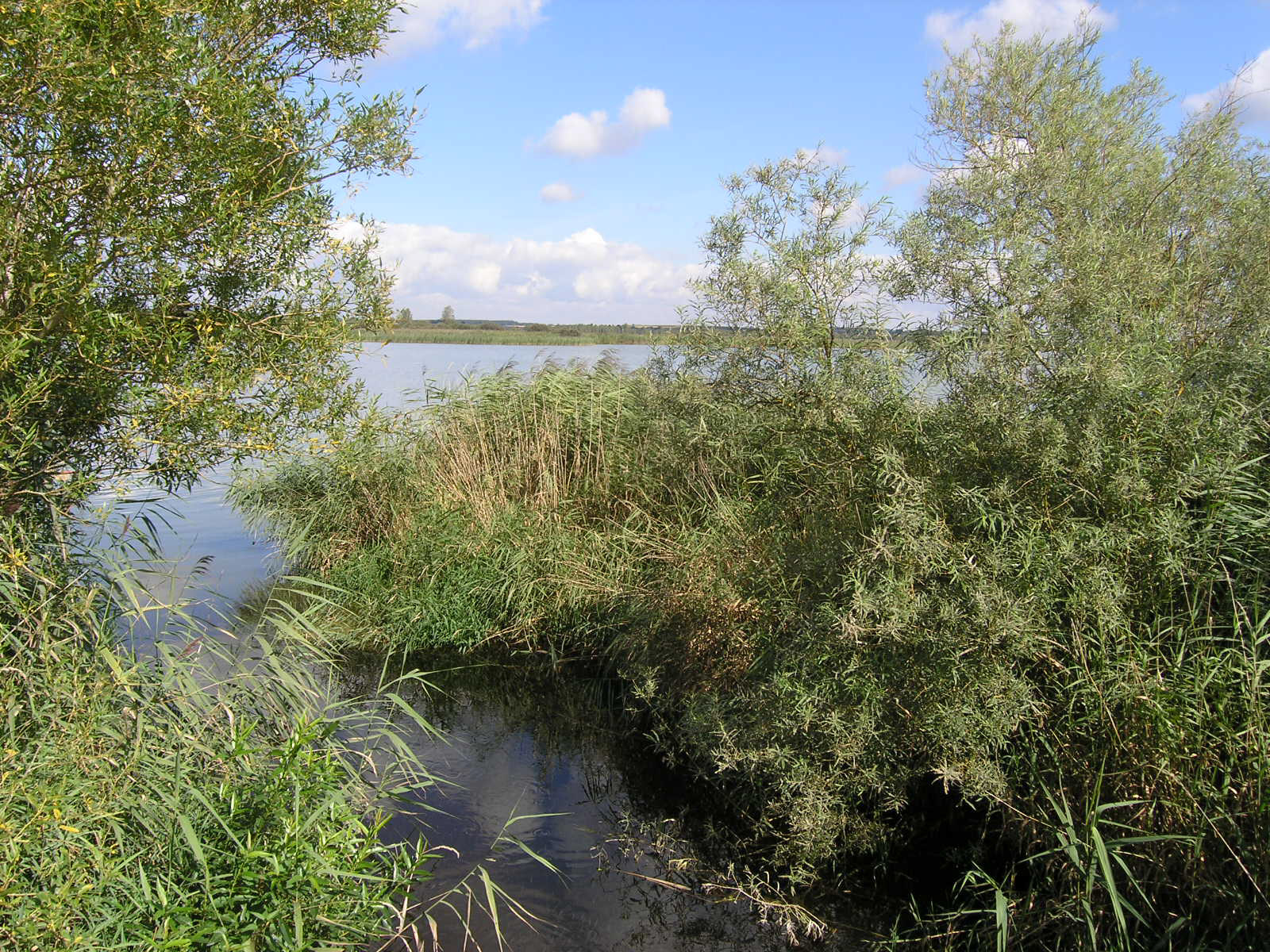 Federsee nature reserve at Bad Buchau, near Biberach an der Riss in South-West Germany